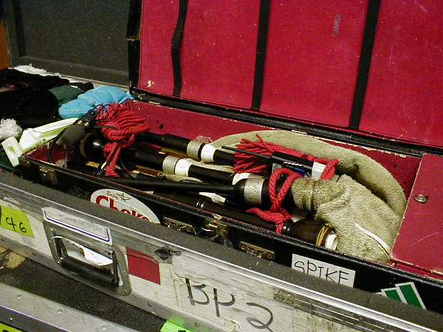 Jonathan Davis - stage bagpipes - 2000 - Manchester